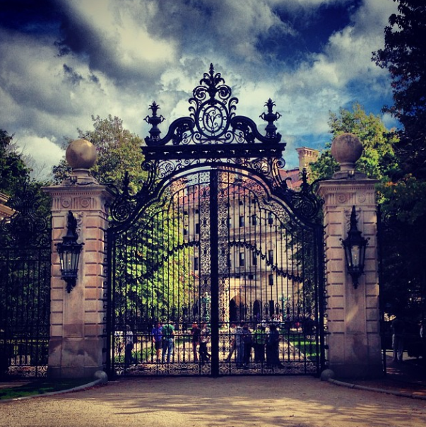 The Breakers, Ochre Point Ave. Newport